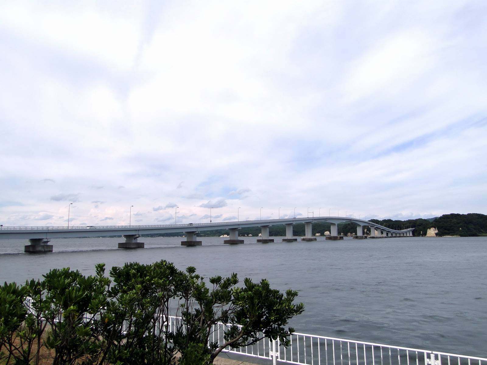 Notojimaoohasi